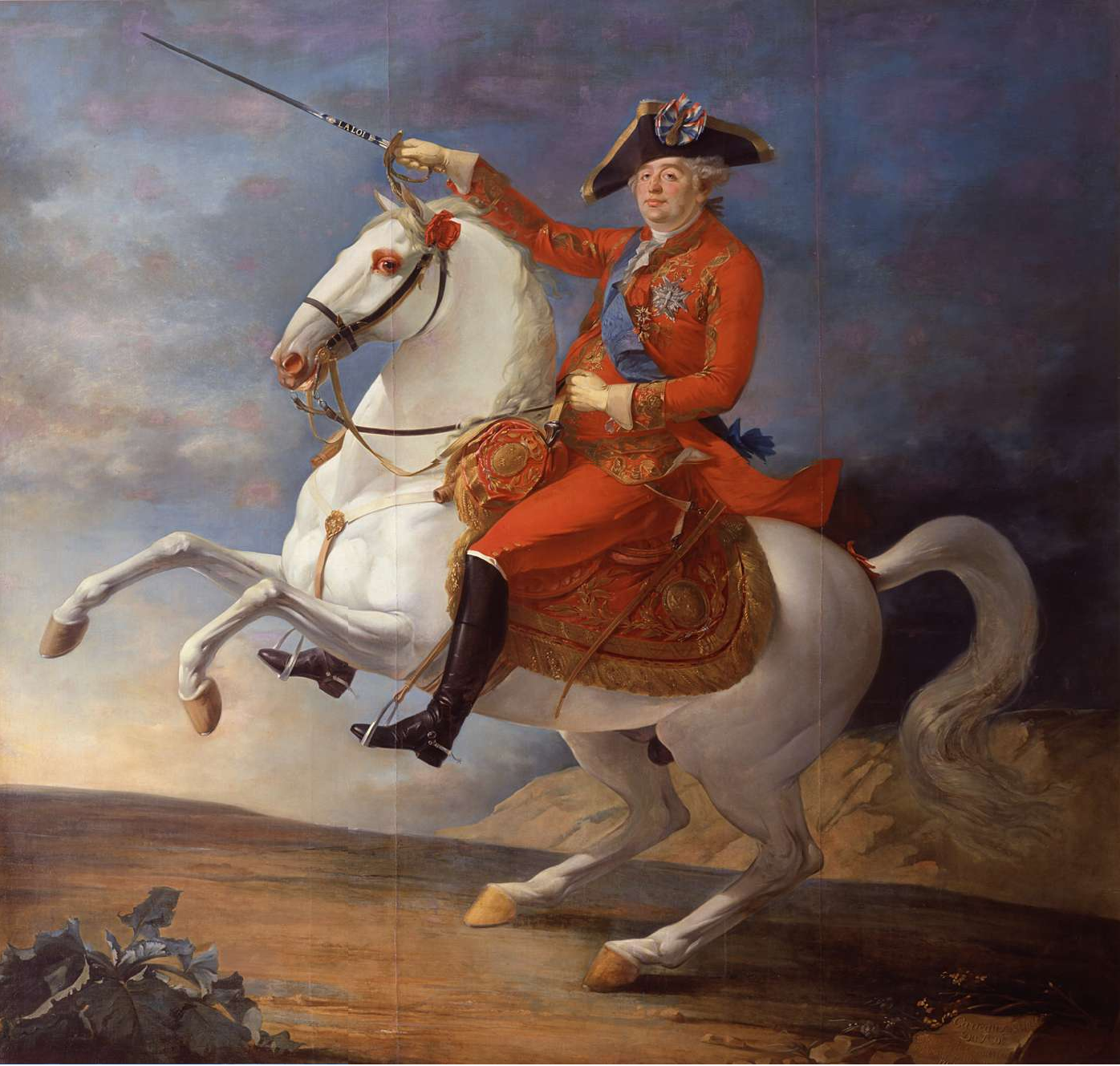 Louis XVI as a citizen-king, sporting the tricolor cockade on his hat.